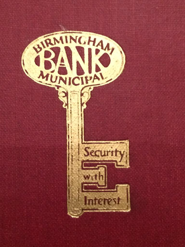 Logo of the Birmingham Municipal Bank, from the cover of a 1927 book "Britain's first Municipal Savings Bank- The romance of a great achievement" by J P. Hilton.